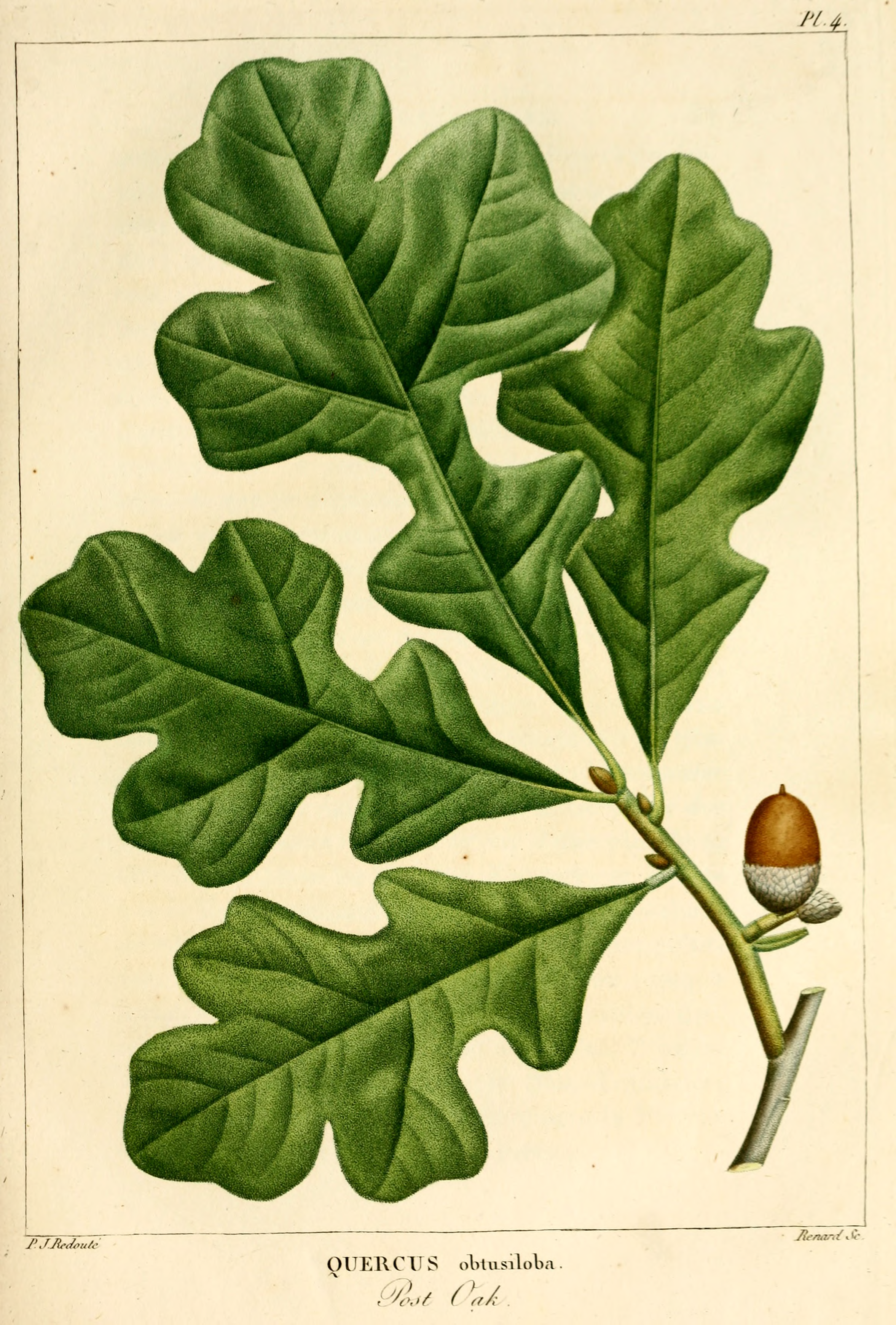 Quercus stellata - Post Oak (original caption: Post Oak Quercus obtusiloba)